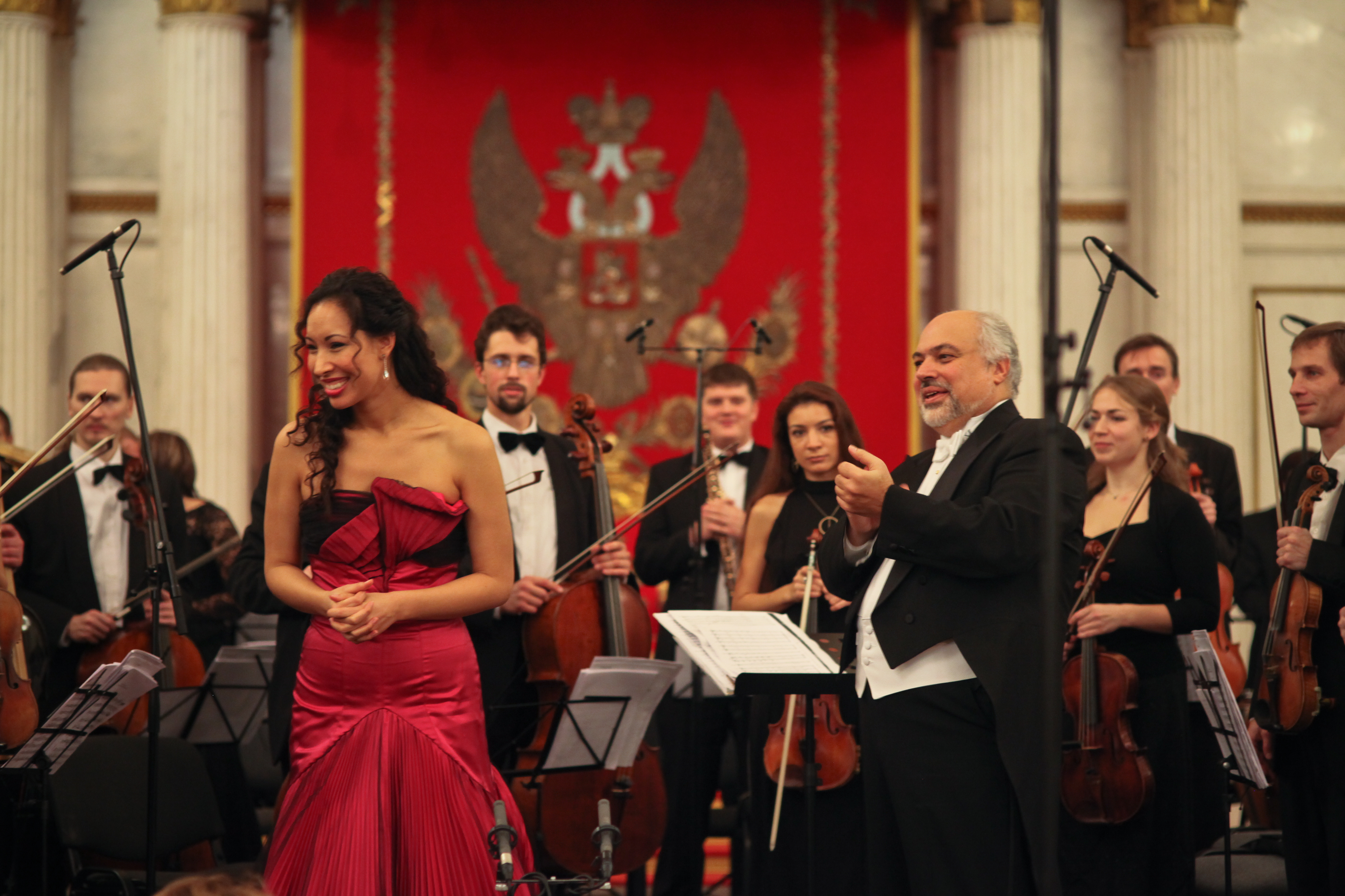 Baltic Symphony Orchestra with Hvorostovsky